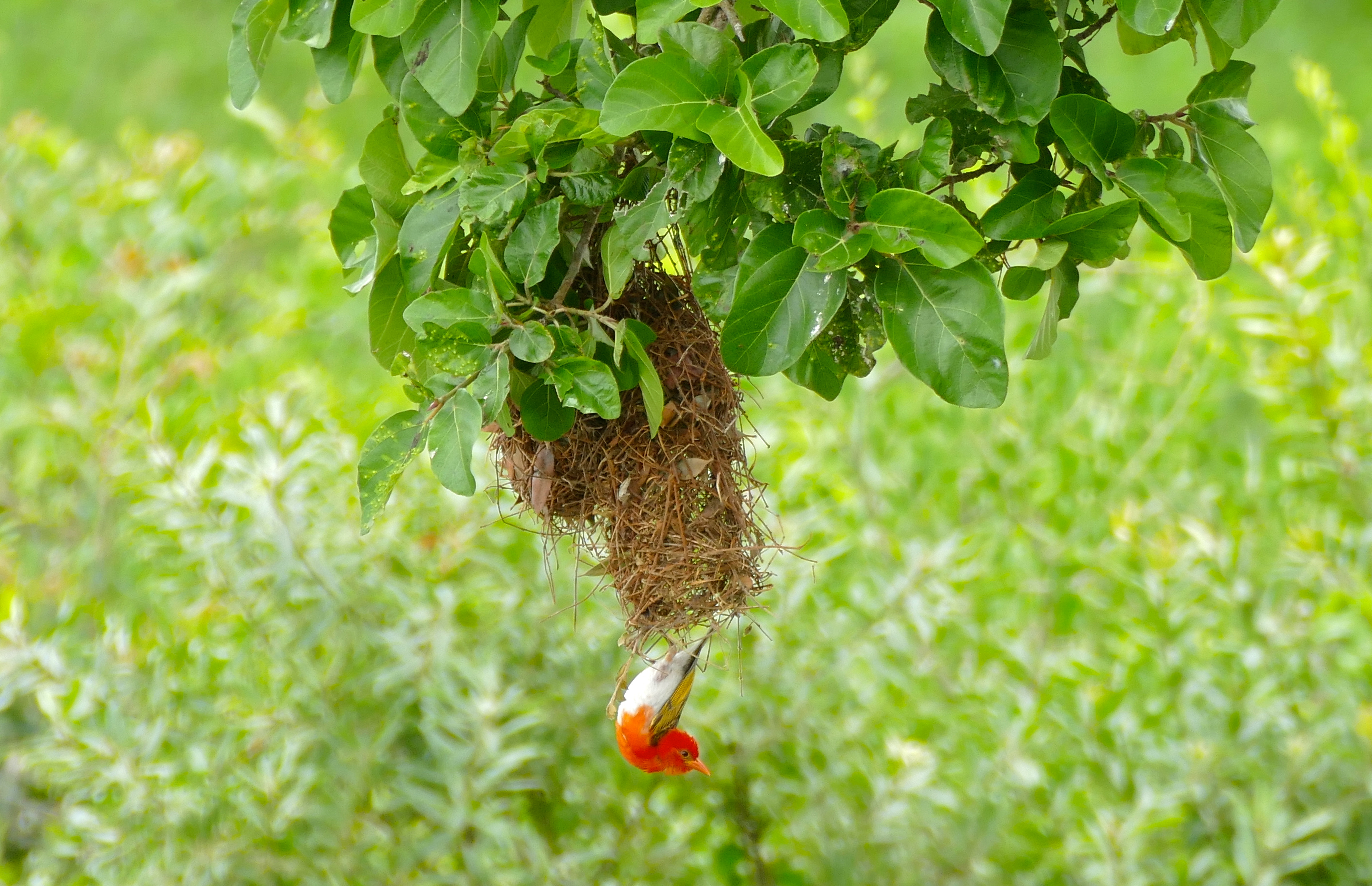 Ntandanyathi Hide, S28 Road South of Lower Sabie, Kruger NP, SOUTH AFRICA